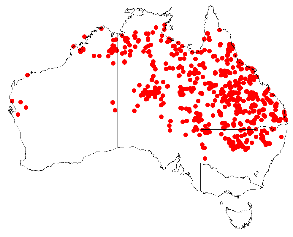 Lysiana subfalcata occurrence data downloaded from AVH, 30 September 2018